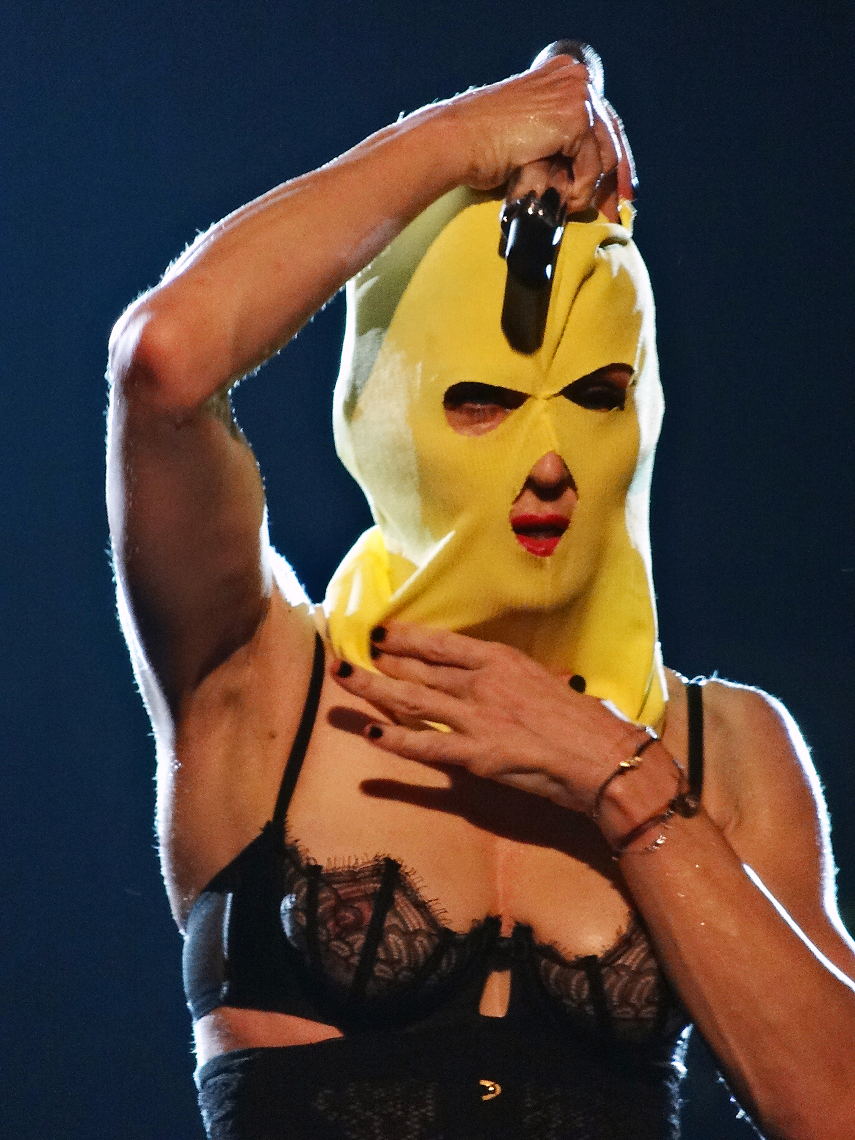 Madonna during her concert in Nice as part of her MDNA Tour on August 21, 2012.